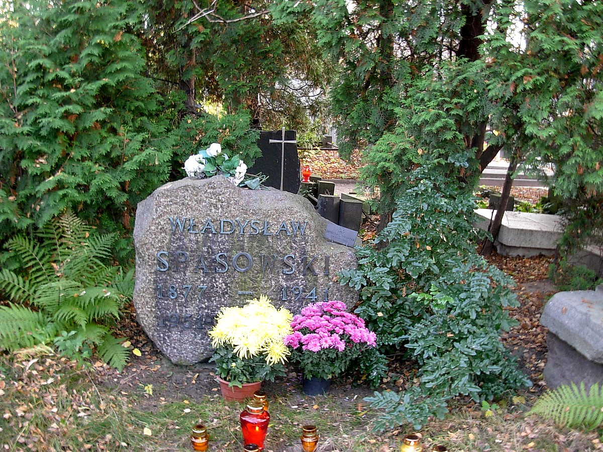 Tomb of Władysław Spasowski in Warsaw (Cmentarz Ewangelicko-Reformowany w Warszawie)